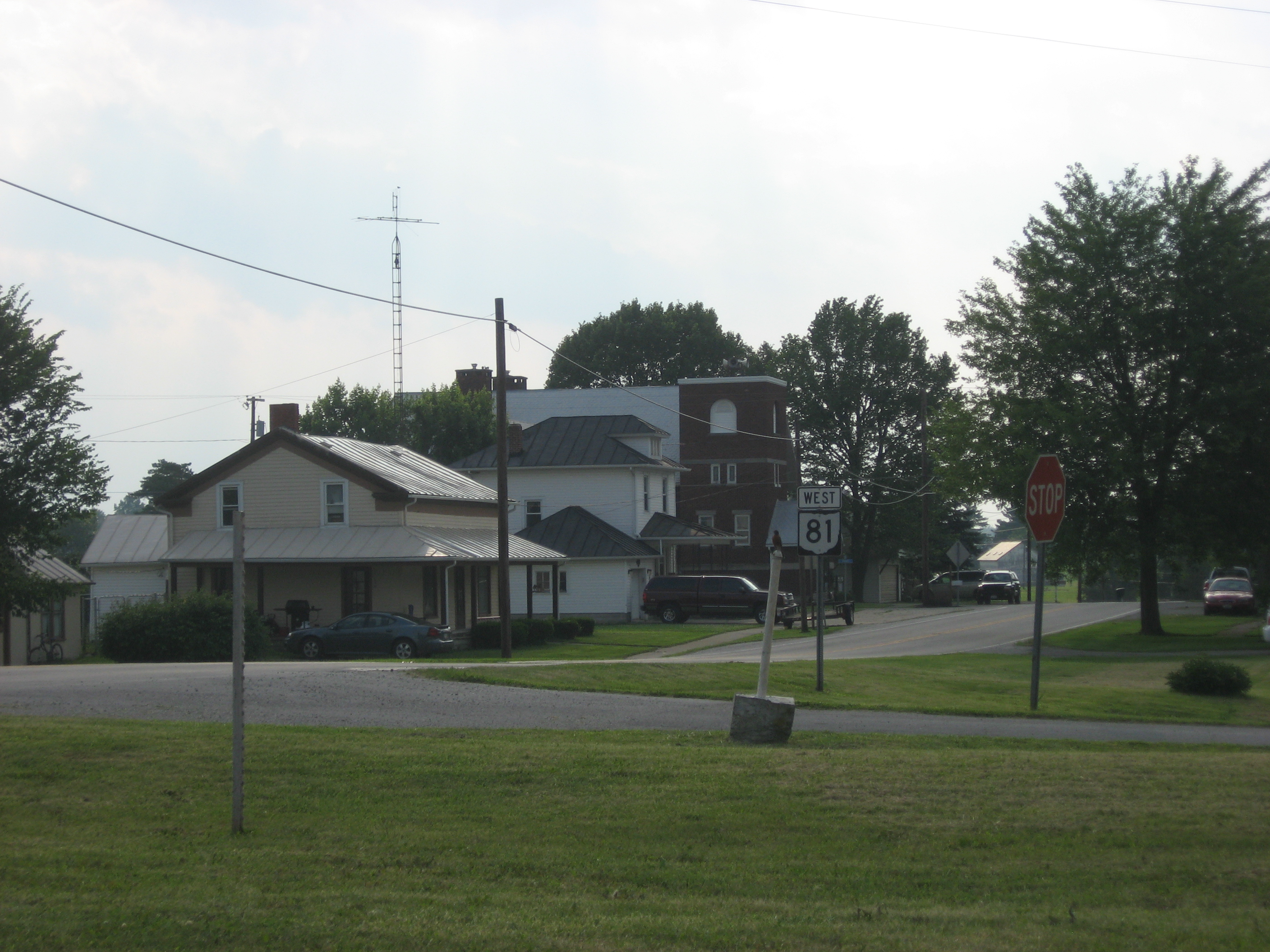 Looking westward along Main Street (State Route 81) from the Kenton Street (State Route 53) junction in central Patterson, Ohio, United States.